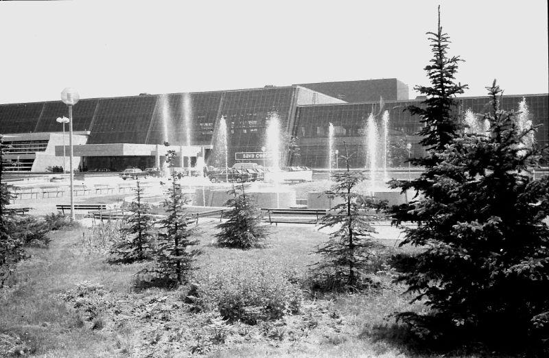 Sava Centar, Novi Beograd in 1978.